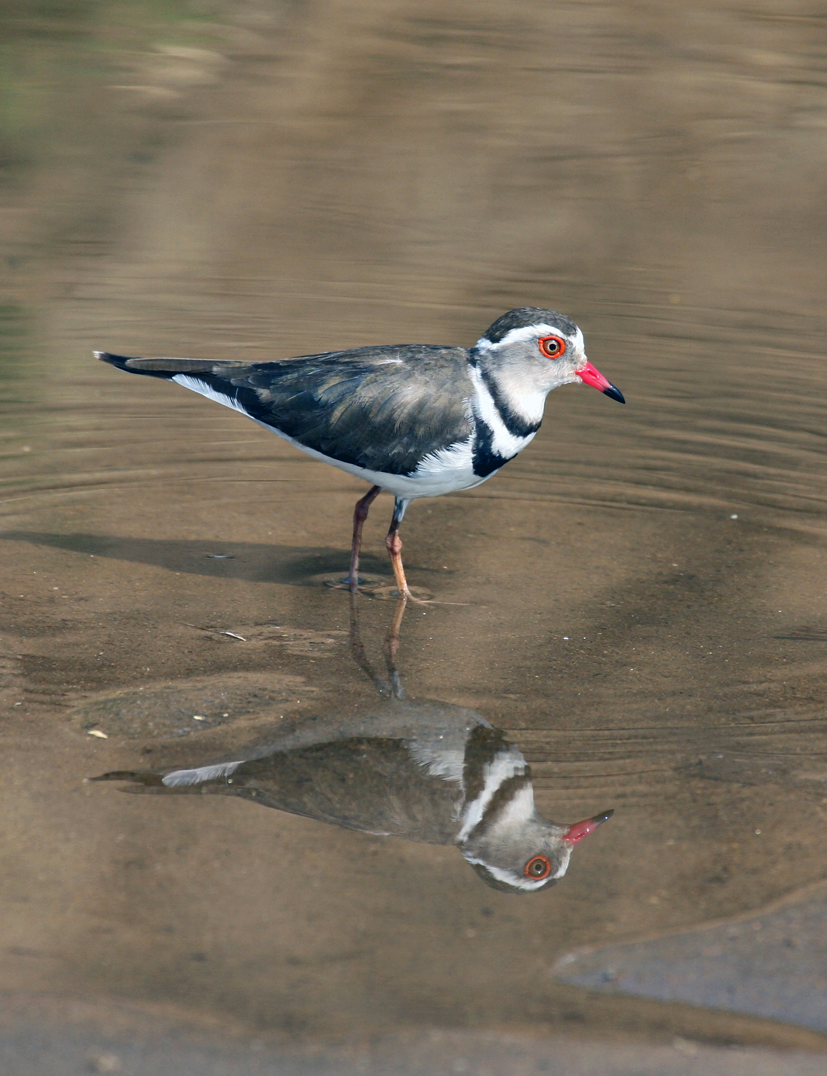 A Three-banded Plover (Charadrius tricollaris) near Sand River Selous, Selous Game Reserve, Tanzania.